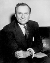 former Senator Price Daniel of Texas.